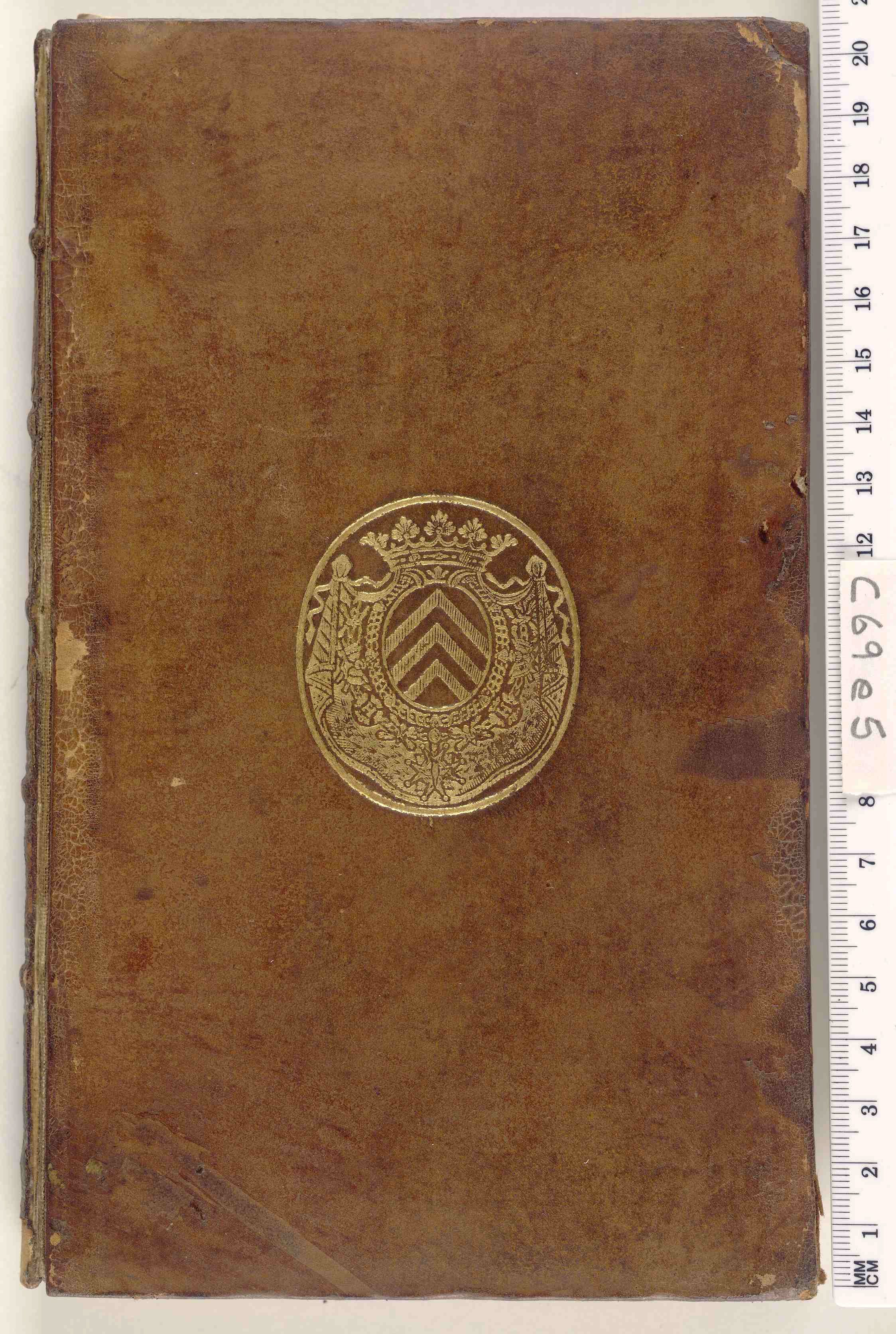 Style: Armorial; Caption: Upper cover; Colour: Brown; Edge: Unspecified